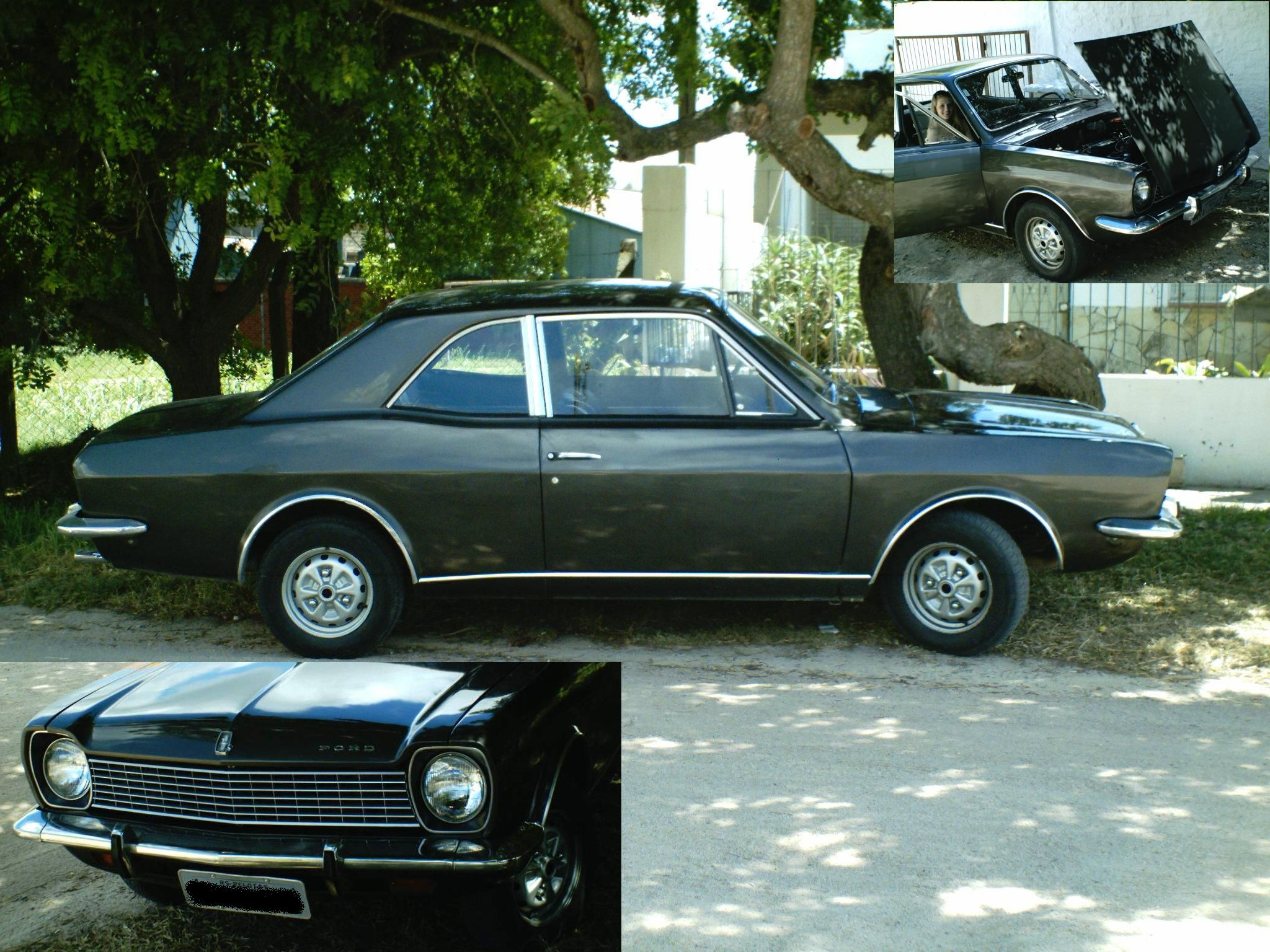 Ford Corcel 1975